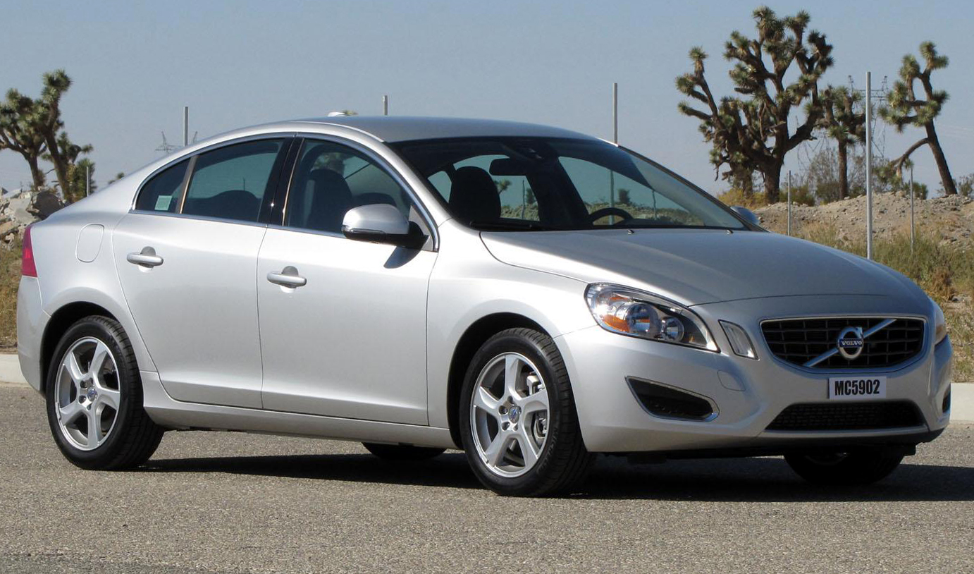 2012 Volvo S60 T5 photographed in USA.